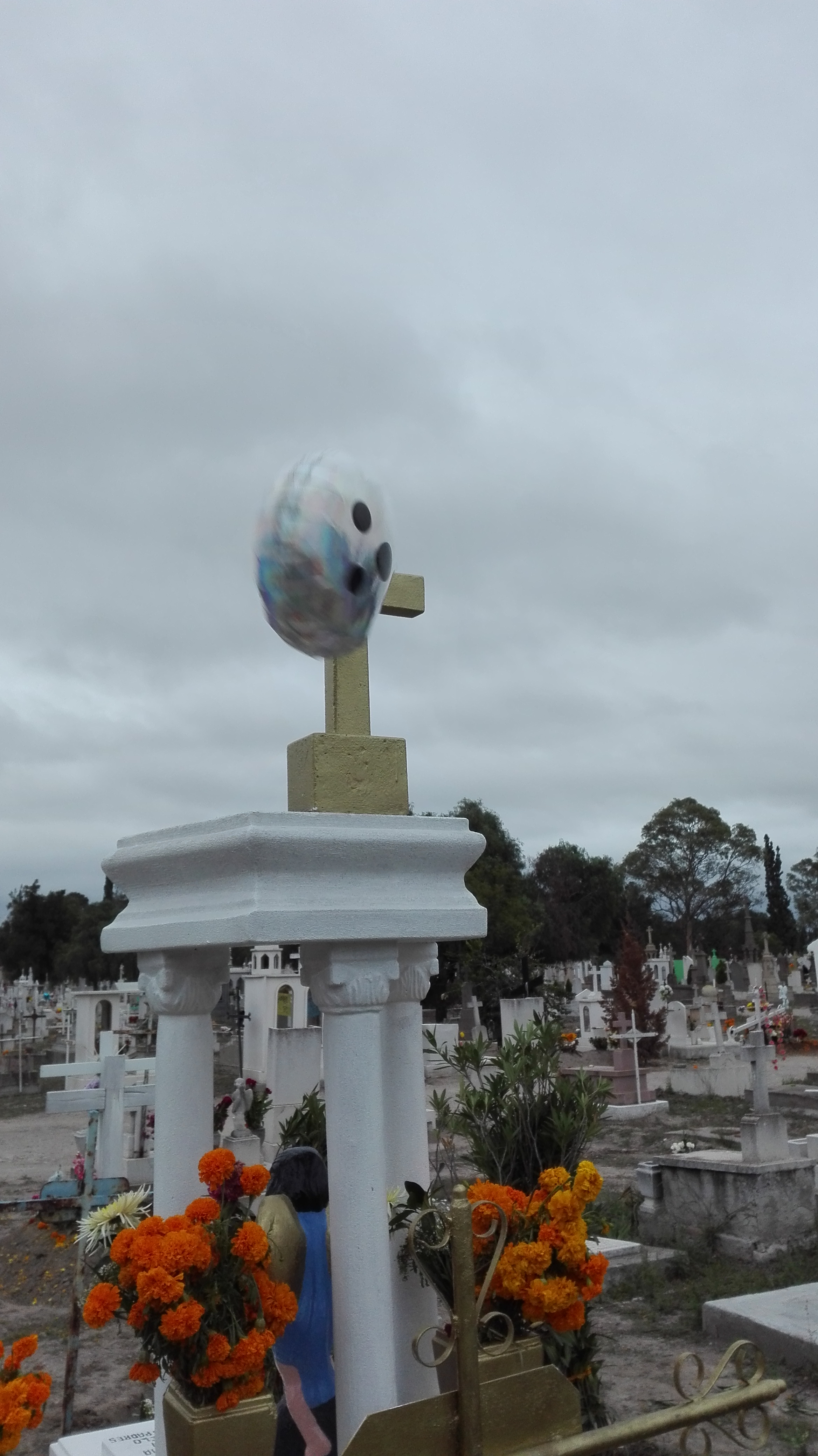 Mexican tomb at El Saucito cemetery, the historic cemetery of San Luis Potosí city, photo taken on November 2, 2019, bearing the cempasúchil, the traditional flower of the Mexican Day of the Dead (also known in English as "Aztec marigolds"), and an American-inspired Halloween ghost balloon